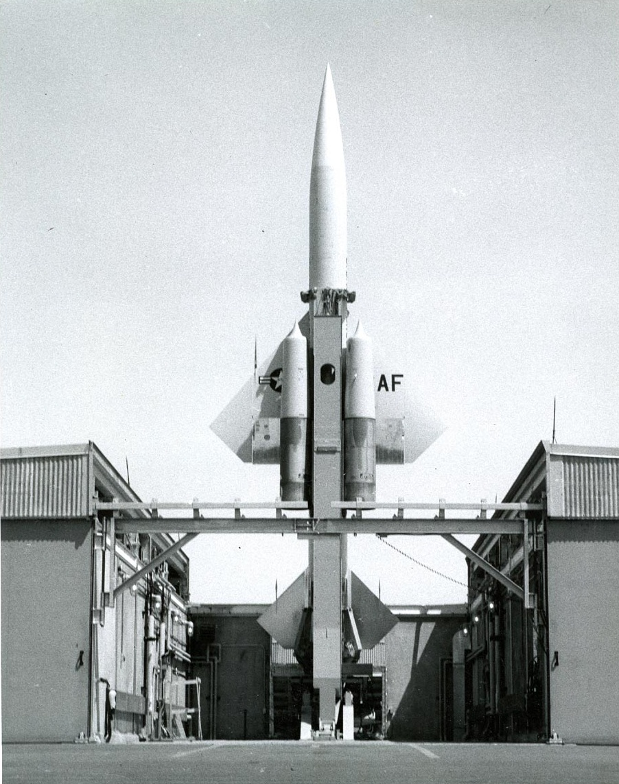 A CIM-10B Bomarc missile at the launch ready position at the Otis Air Force Base BOMARC site.